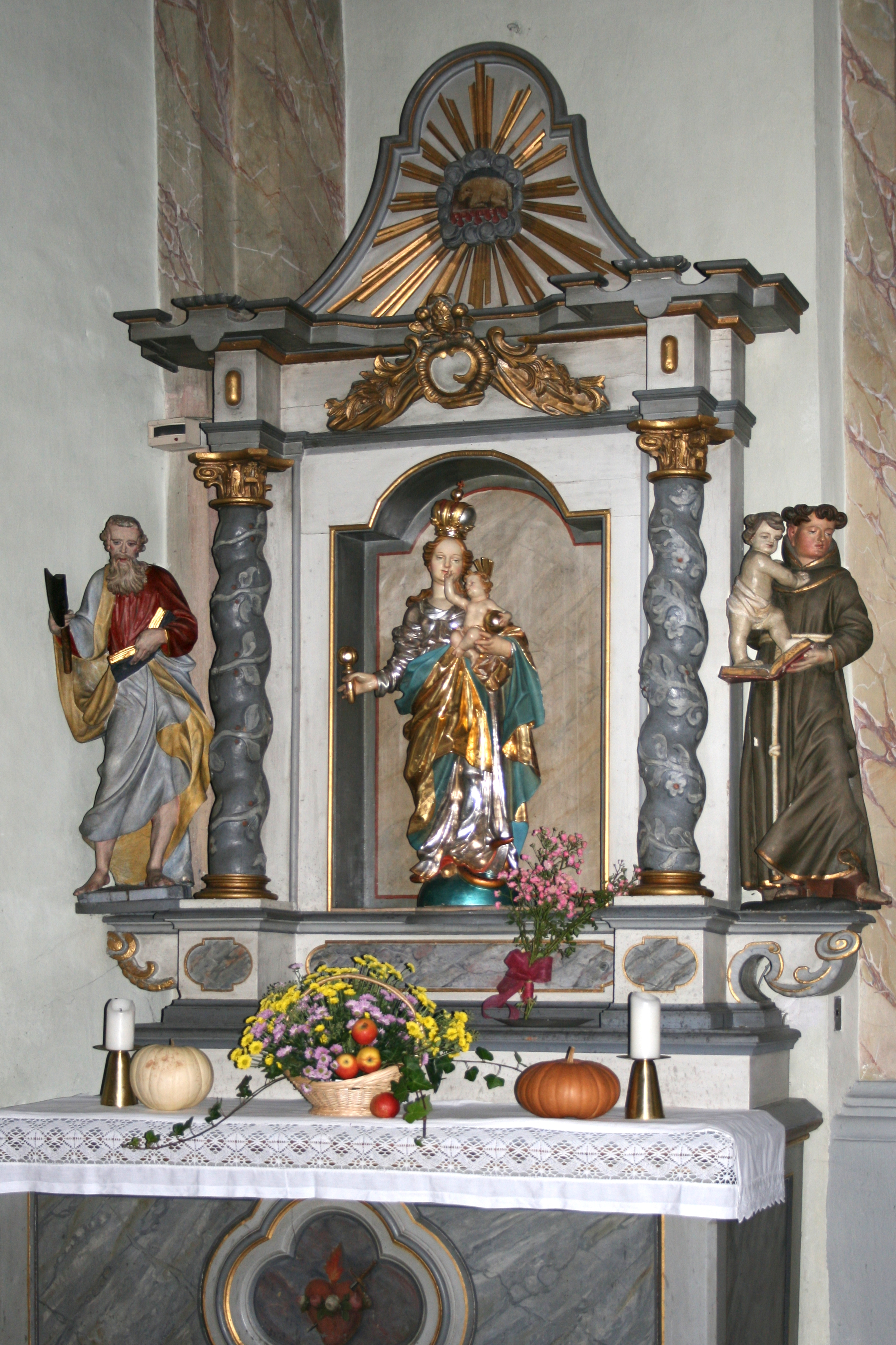 St. Mary-Altar in the church St. Peter in Lieser, with a Madonna from the middle of the 18th century